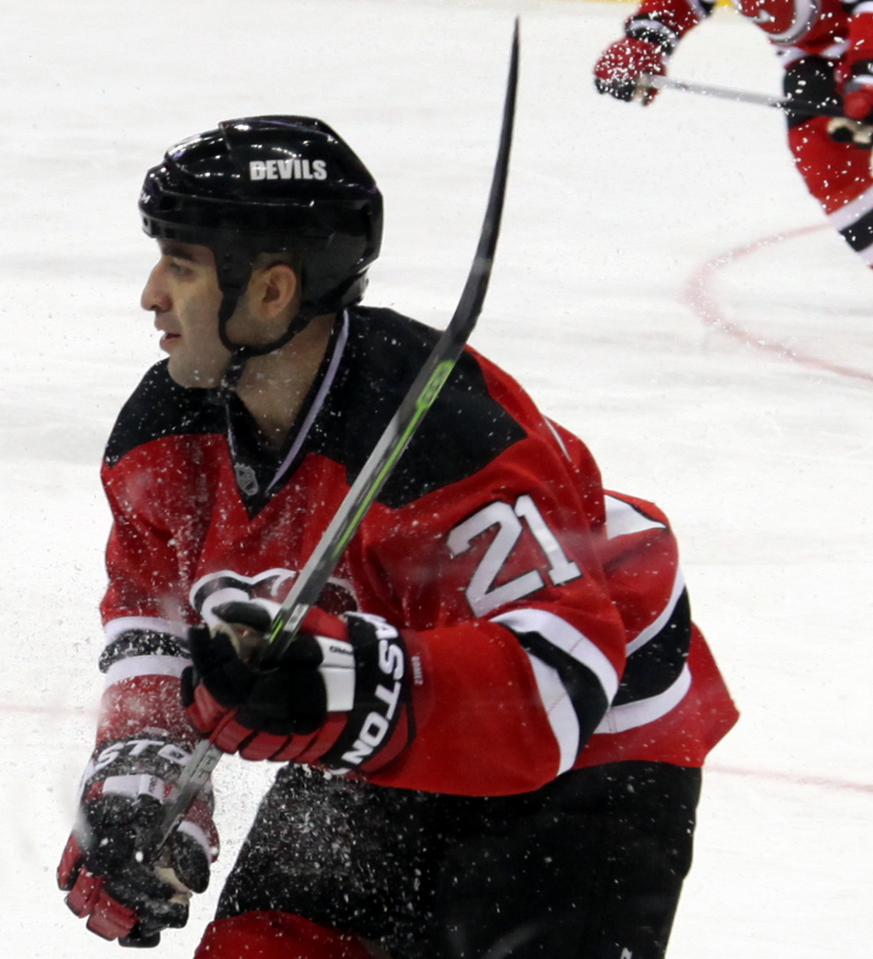 Gomez in January 2015.